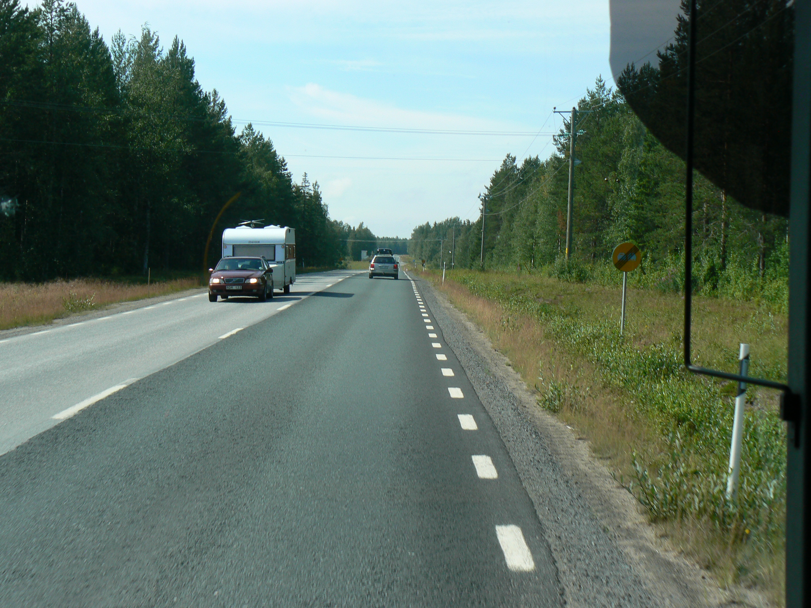 Road E4 between Haparanda and Kalix, Sweden. July 2009.